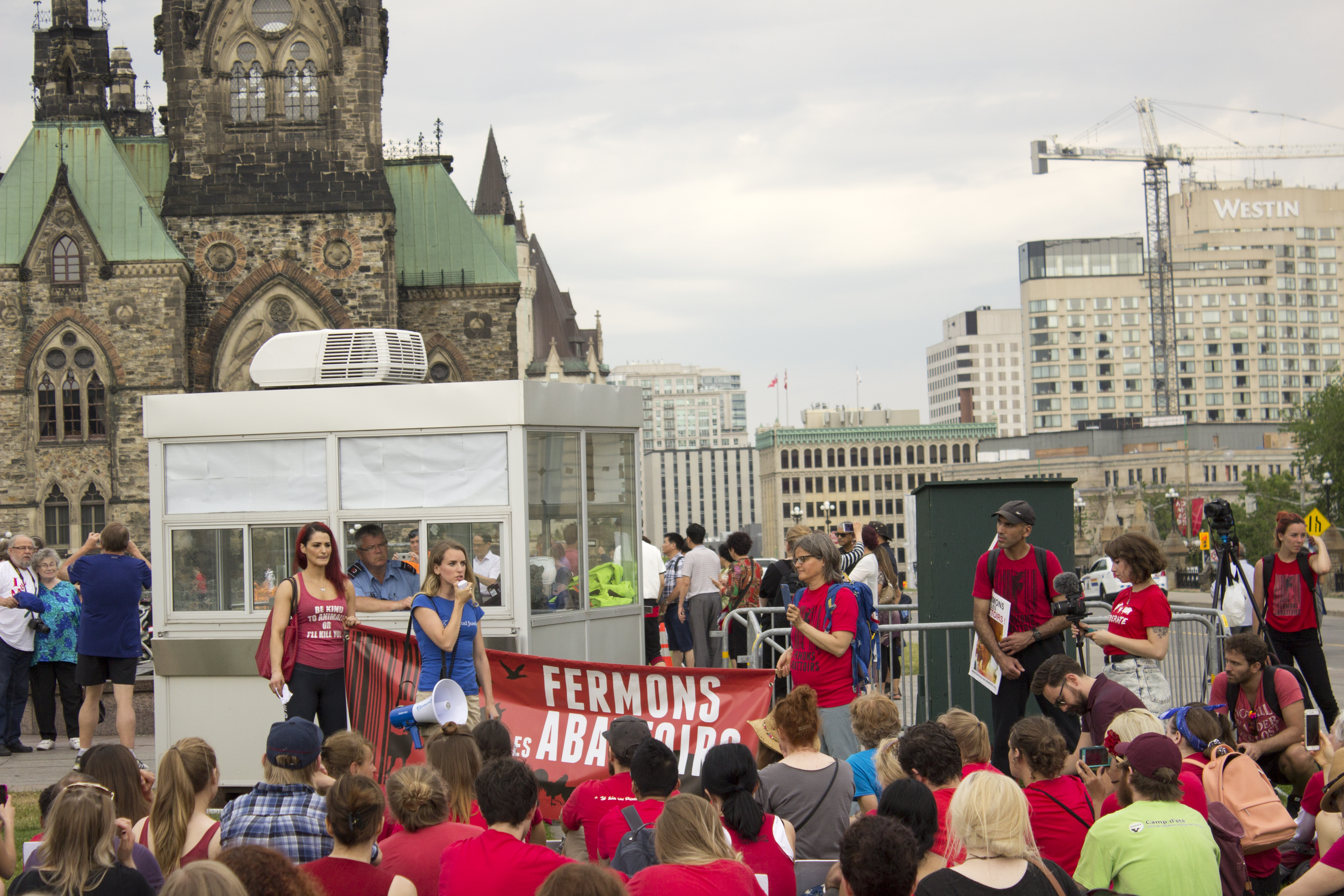 Taken during their June 17th, 2017 protest in front of Parliament Hill.